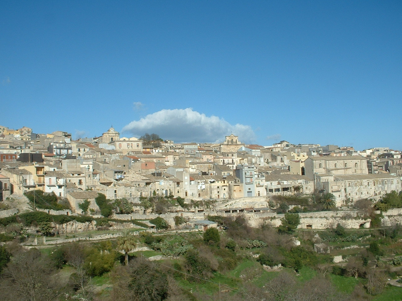 View of Buscemi